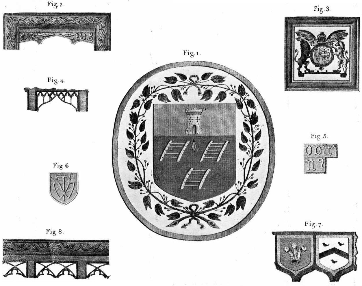 St Padarn's Church, Llanbadarn Fawr, etchings of now lost interior woodwork, from "History and Antiquities of the County of Cardigan" by Samuel Meyrick (1810)